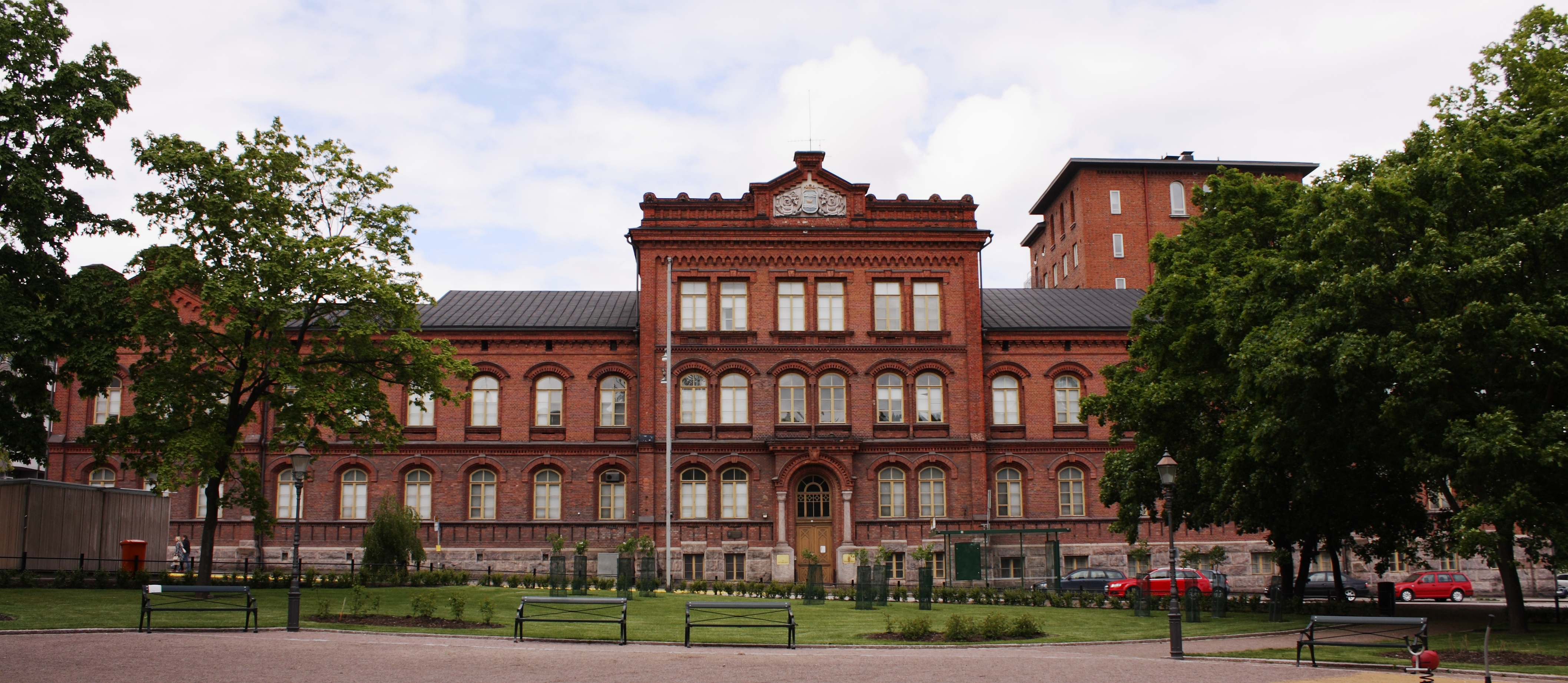 Former military academy in Kruununhaka, Helsinki.